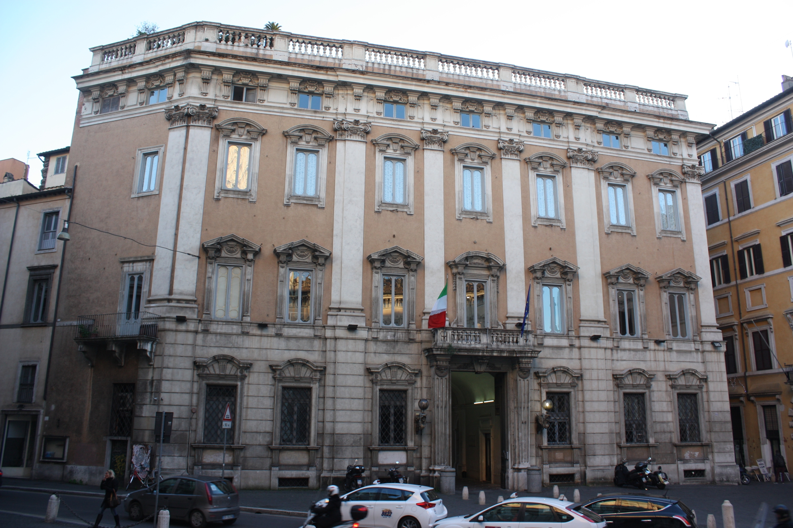 Rome, the Palazzo Cenci-Bolognetti